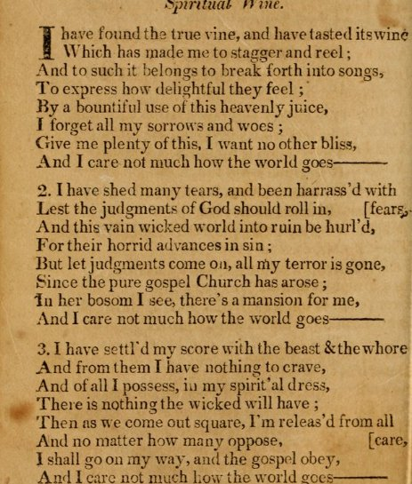 Spiritual Wine hymn in Millennial Praises, Part I hymn XVI.